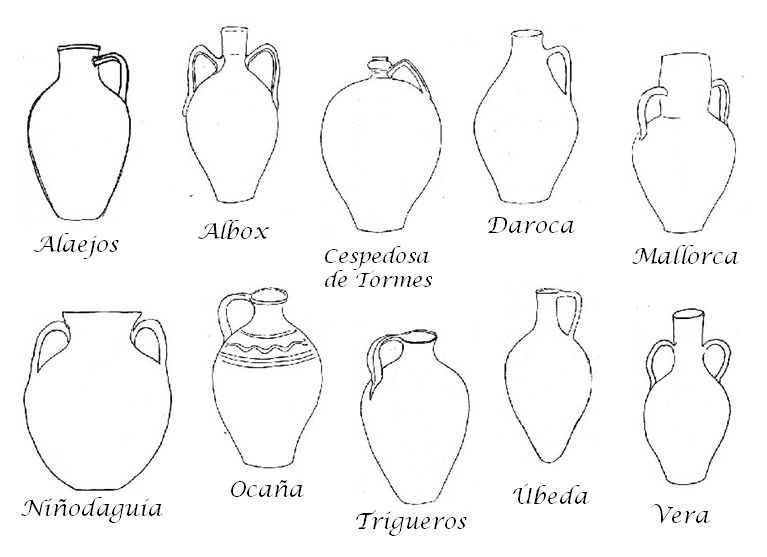 'Cántaros' of Spanish traditional pottery.